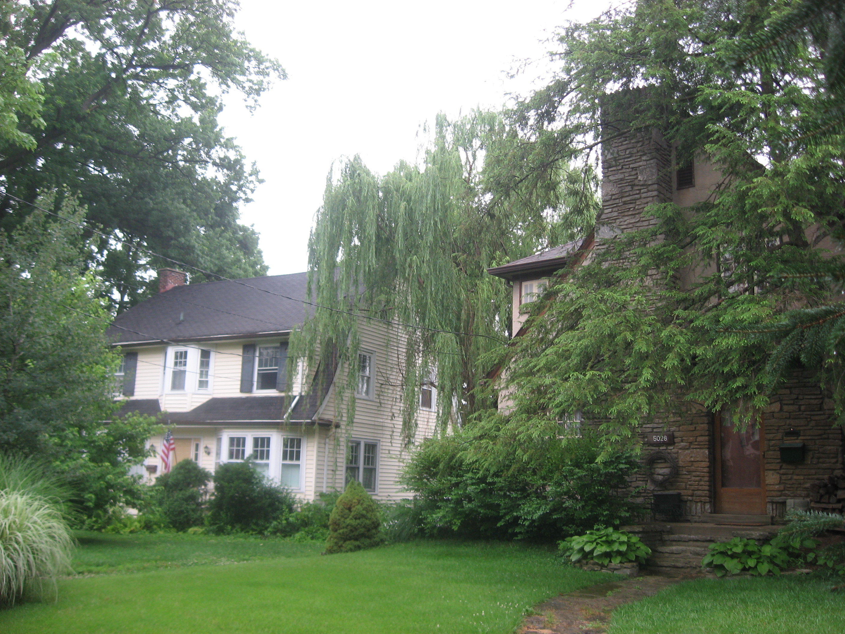 Houses on the eastern side of the 5000 block of Eastwood Circle in Cincinnati, Ohio, United States. This block is part of the Eastwood Historic District, a historic district that is listed on the National Register of Historic Places.